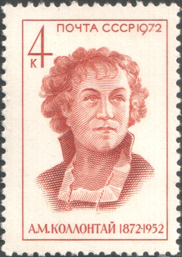 USSR stamp: Alexandra Kollontai (1872–1952), Diplomat (Birth Centenary). Series: Outstanding Workers of the Communist Party of the Soviet Union and for the State. Birth Anniversaries